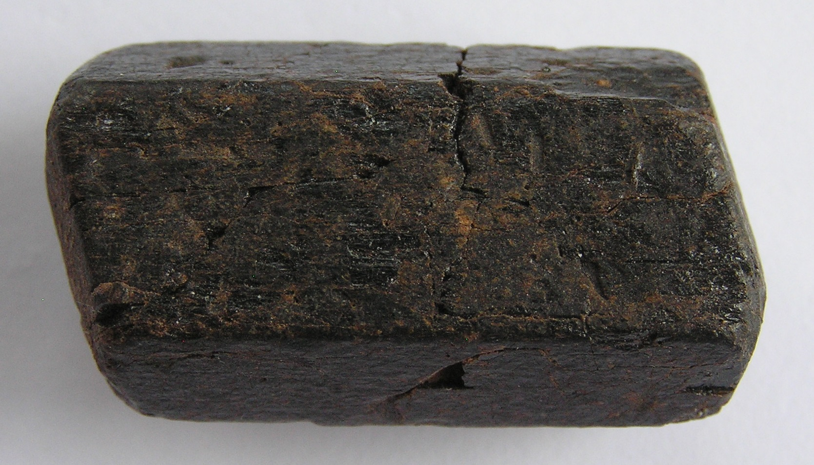 Kaersutit